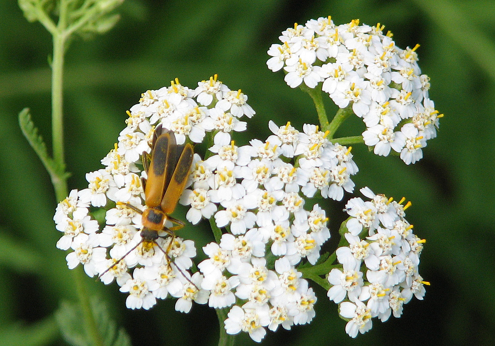 Goldenrod Soldier Beetle (Chauliognathus pennsylvanicus), Ottawa, Ontario, Canada